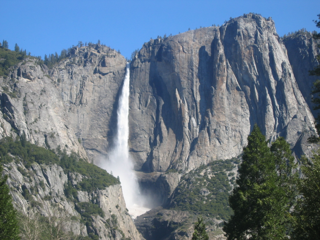 Yosemite Falls, Yosemite, California, USA